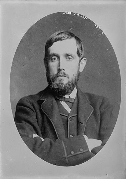 John Dillon (1851 - 1927), Irish nationalist politician